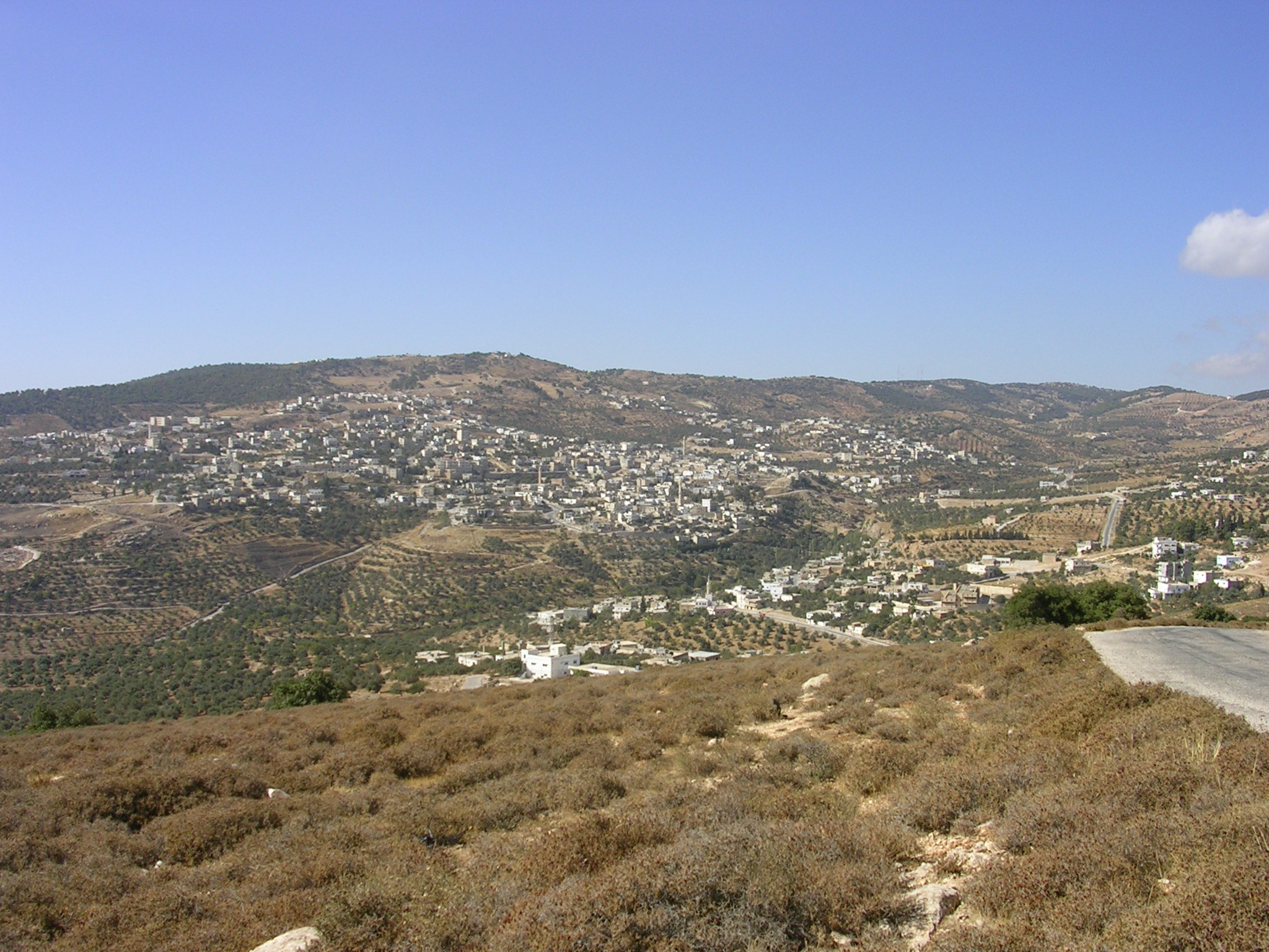 This picture show all souf from ebnaladham mountain, this picture is taken by me and I am using it as public picture.